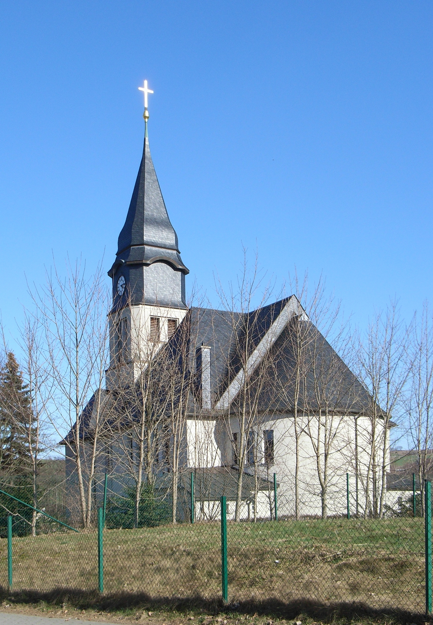 Holy Cross church Chemnitz-Klaffenbach